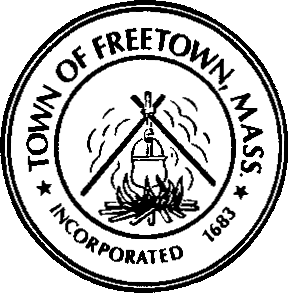 Seal of the Town of Freetown, Massachusetts. Image taken from [1]. The following description of the origin of the seal appears on the town's website: "In 1890 state authorities called the attention of town officers to the advisability of having town seals. Col. Silas P. Richmond, who at that time was chairman of the Board of Selectmen of Freetown, devised the present town seal. The idea was taken from the "consideration" named in the deal of Freeman's Purchase (the tract of land which is now Assonet) from the Indians, a part of which was "one little kettle". The device was accepted by the town as its official seal and was first used in 1893."